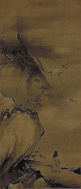 Winter landscape from the set: Autumn and Winter Landscapes (絹本著色秋景冬景山水図, kenpon choshoku shūkei tōkei sansuizu) by Emperor Huizong of Song dated to 12th century Southern Song Dynasty. One of two hanging scrolls, 128.2 cm x 55.2 cm each. Color on silk. Located at Konchi-in (金地院) in Kyoto.